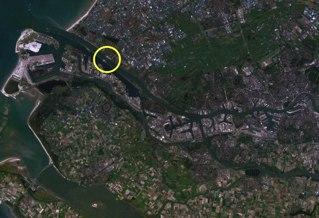 Satellite image of the Europoort, Rotterdam, The Netherlands. The location of the Maeslantkering storm surge barrier is pointed out by the yellow circle Screenshot from NASA's World Wind.